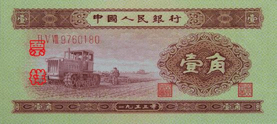 Front of second series 1 jiao renminbi